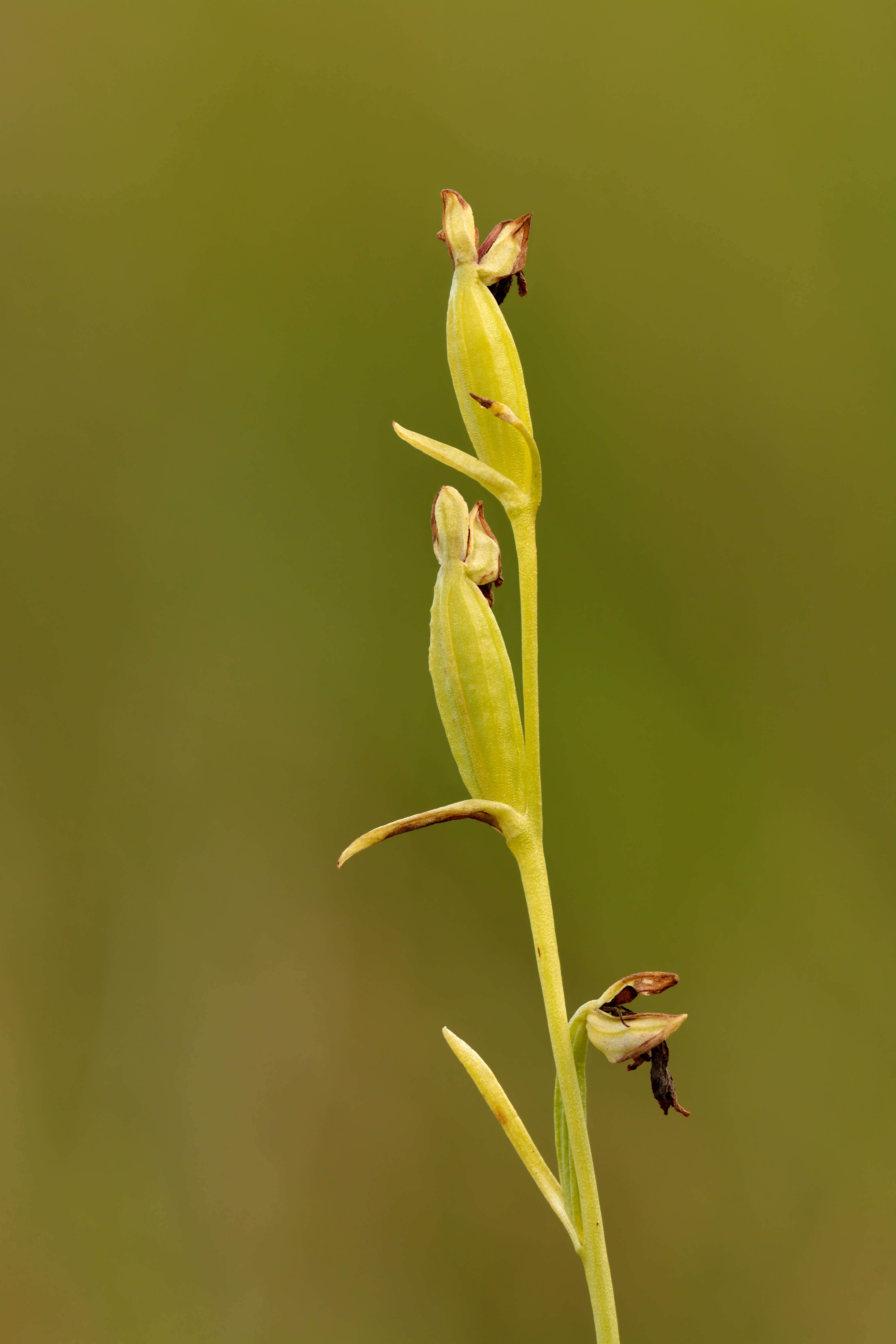 Infructescence of fly orchid.